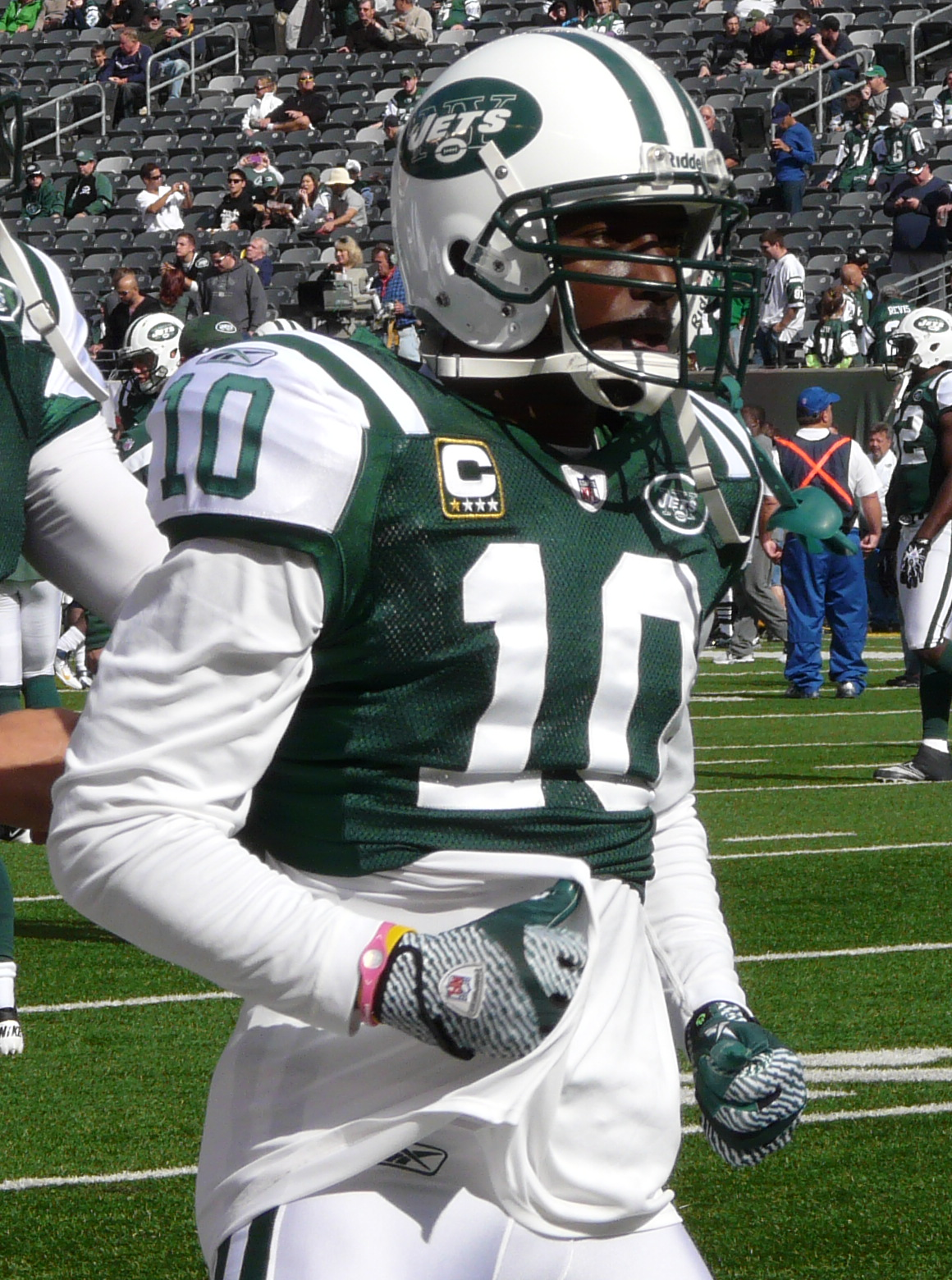 New York Jets Quarterback Mark Sanchez and Wide Receiver Santonio Holmes